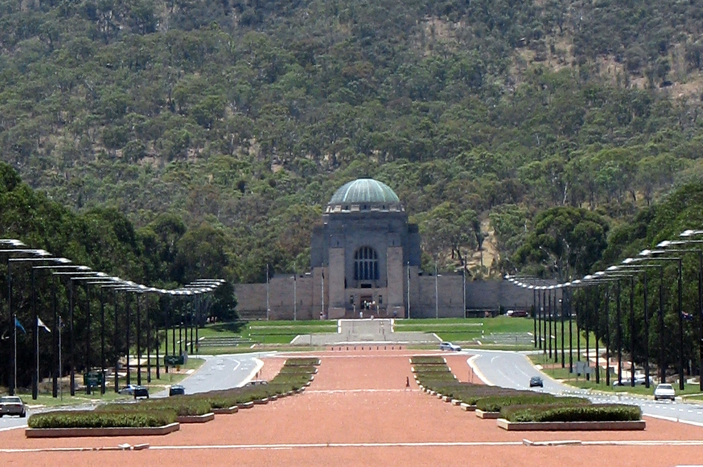 Canberra - War Memorial